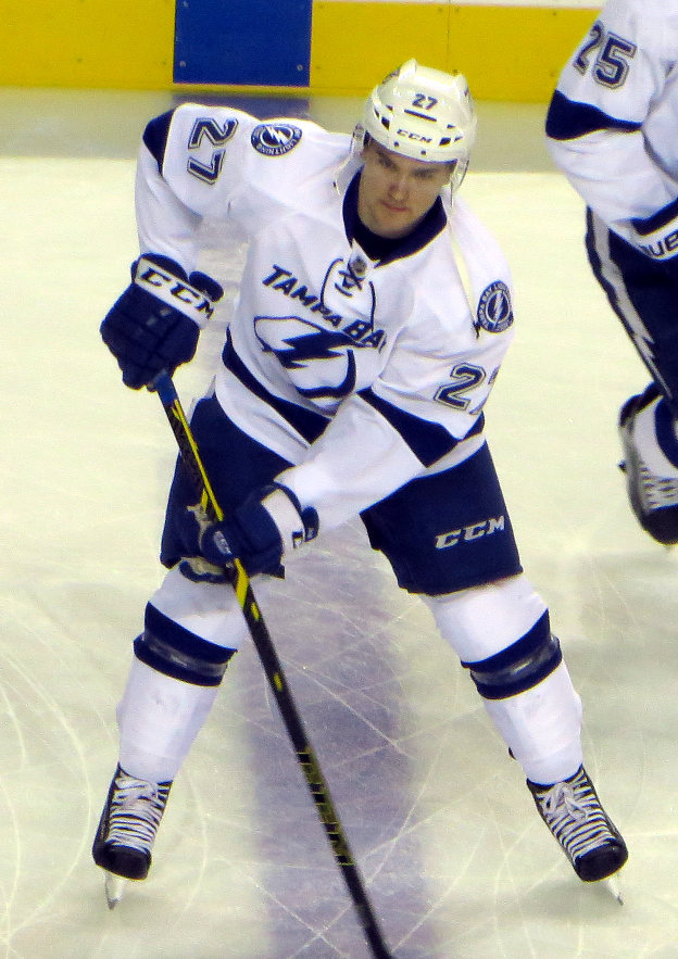 Tampa Bay Lightning forward Jonathan Drouin prior to a National Hockey League game in Calgary.